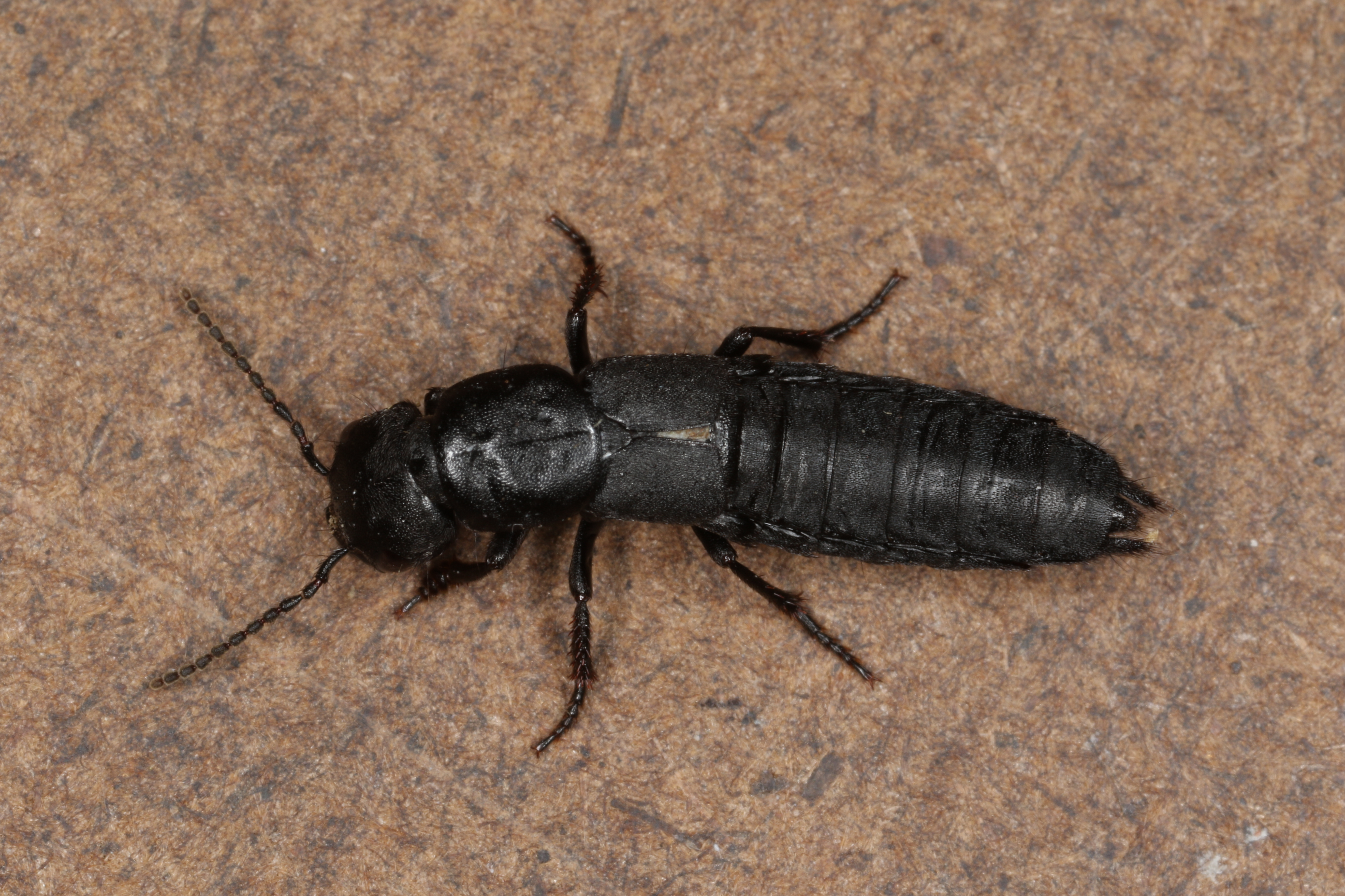 Ocypus nitens (Schrank, 1781), sifted from leaf litter (mainly pine), Søborg Denmark, 10 April 2016